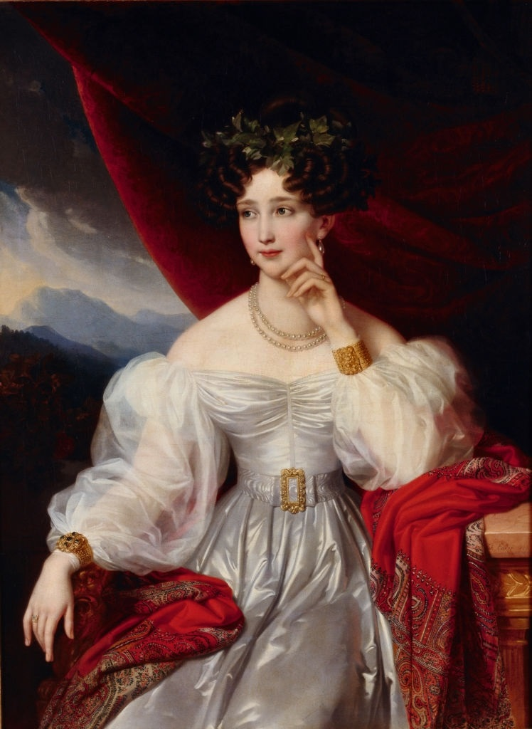 Princess Sophie of Bavaria (Sophie Fürstin von Bayern)